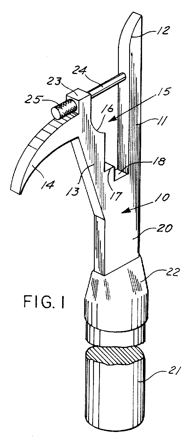 The head of a pike pole, shaped for attaching to and demolishing various types of materials.